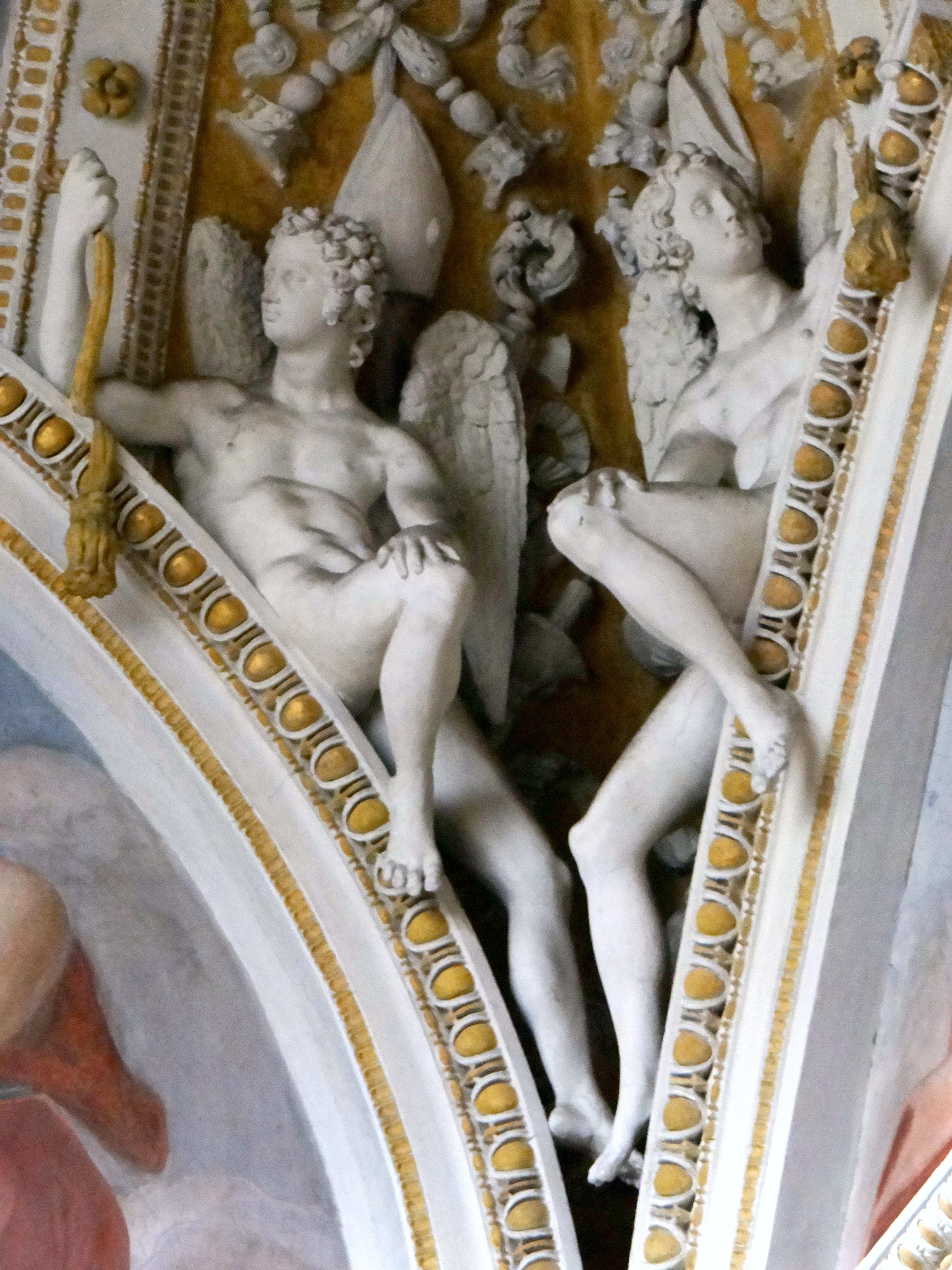 Two stucco angels on the ceiling of the Theodoli Chapel in Santa Maria del Popolo by the workshop of Giulio Mazzoni (before 1575).